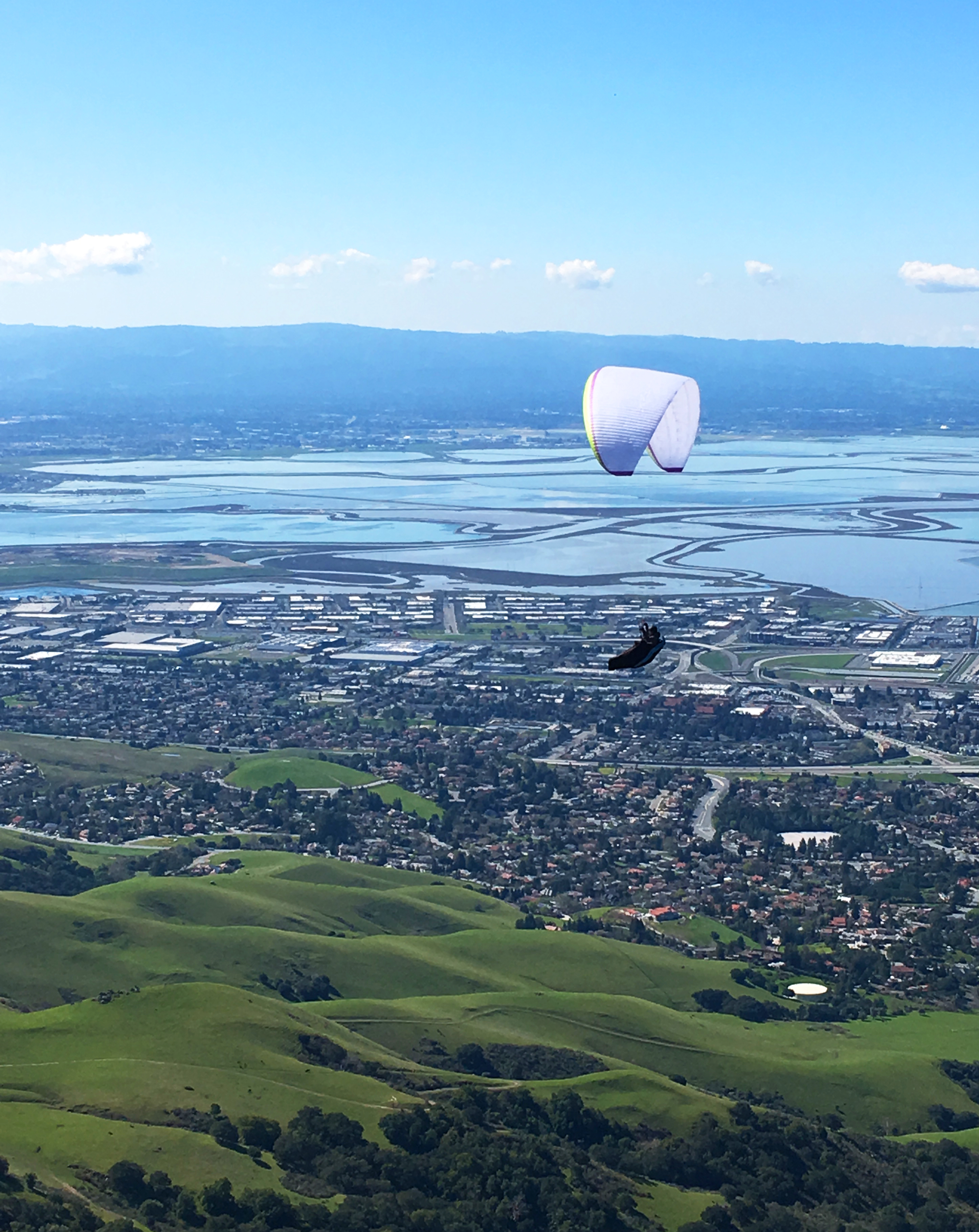 Paraglider viewed from a vista by Mission Peak; city of Fremont and South San Francisco Bay can be seen in the background.